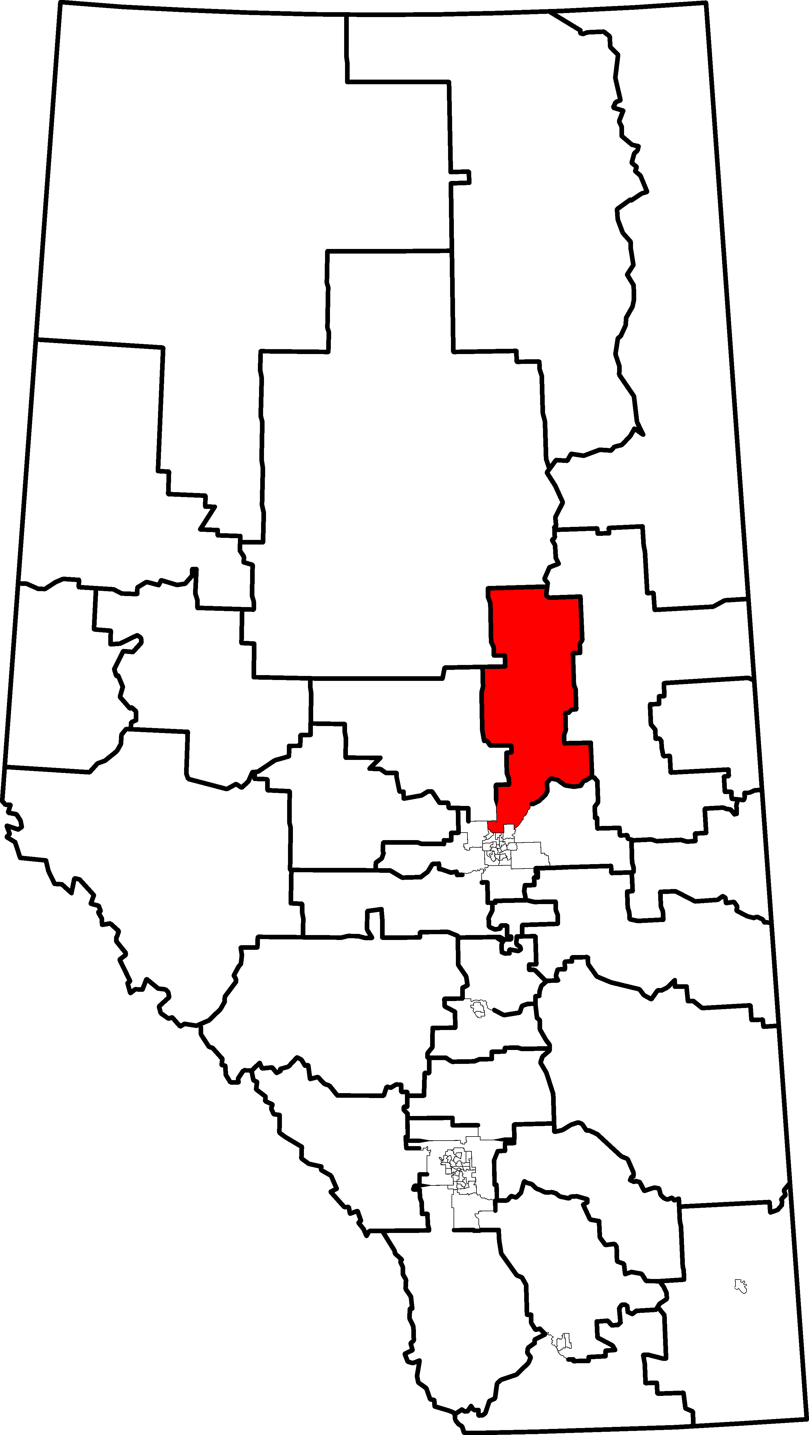 A map of the Alberta provincial electoral districts, effective 2010. Athabasca-Sturgeon-Redwater is highlighted in red.